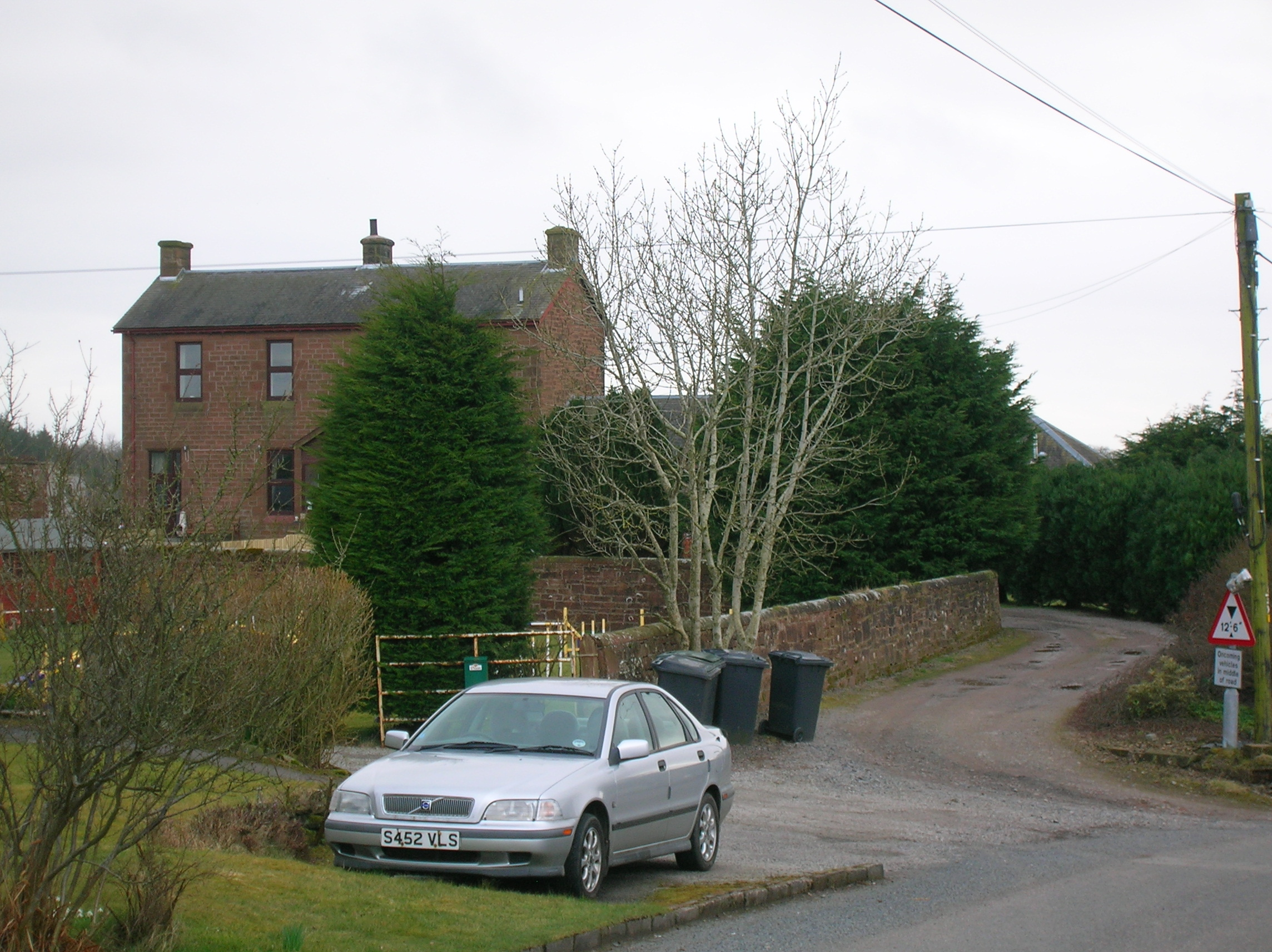 The entrance to Ruthwell railway station, Dumfries, Scotland. Glasgow - Kilmarnock - Dumfries - Carlisle line.